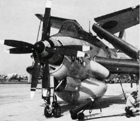 A Royal Navy Fairey Gannet AEW.3 of No. 849 Squadron with folded wings in 1979. The Gannet was retired with the decomissioning of the aircraft carrier HMS Ark Royal (R09).